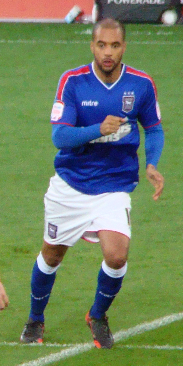 David McGoldrick. Image cropped from original at flickr.